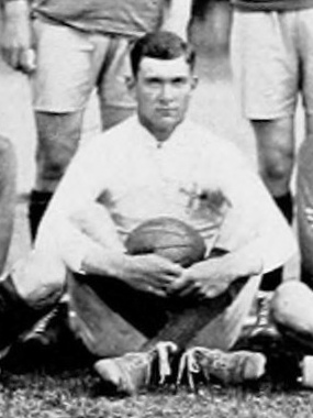 Swedish footballer Josef Börjesson at the Olympics, 1912. In lineup before game against Netherlands, 29 of June.